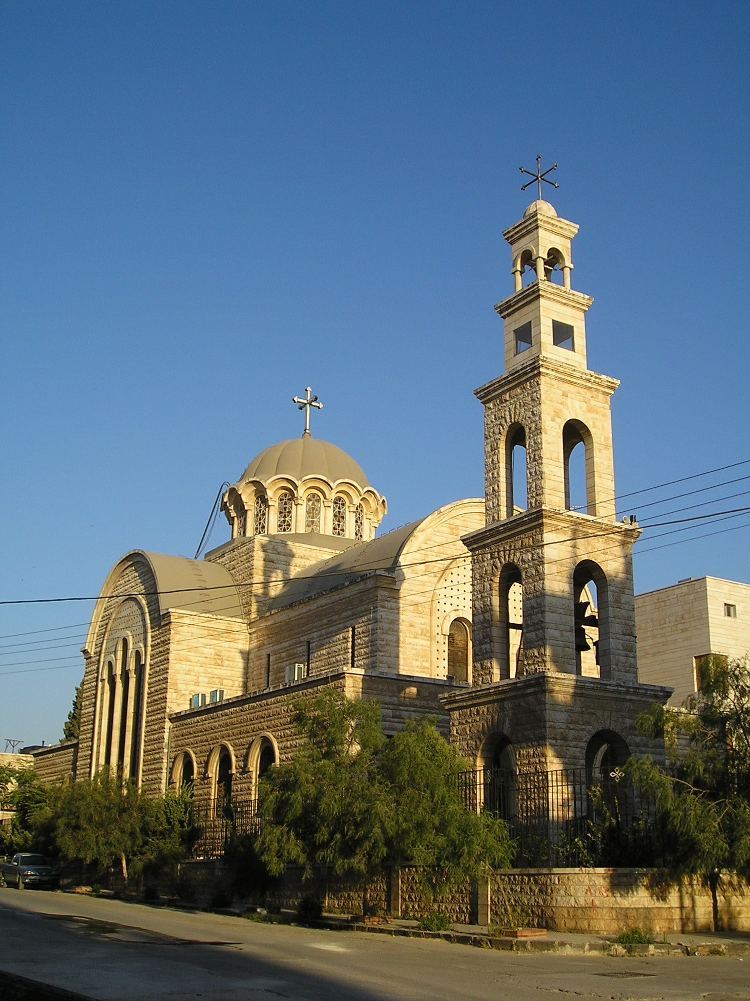 Hama, Syria - a Greek Orthodox church (more precisely, Antiochan Greek Orthodox) of Saint George.